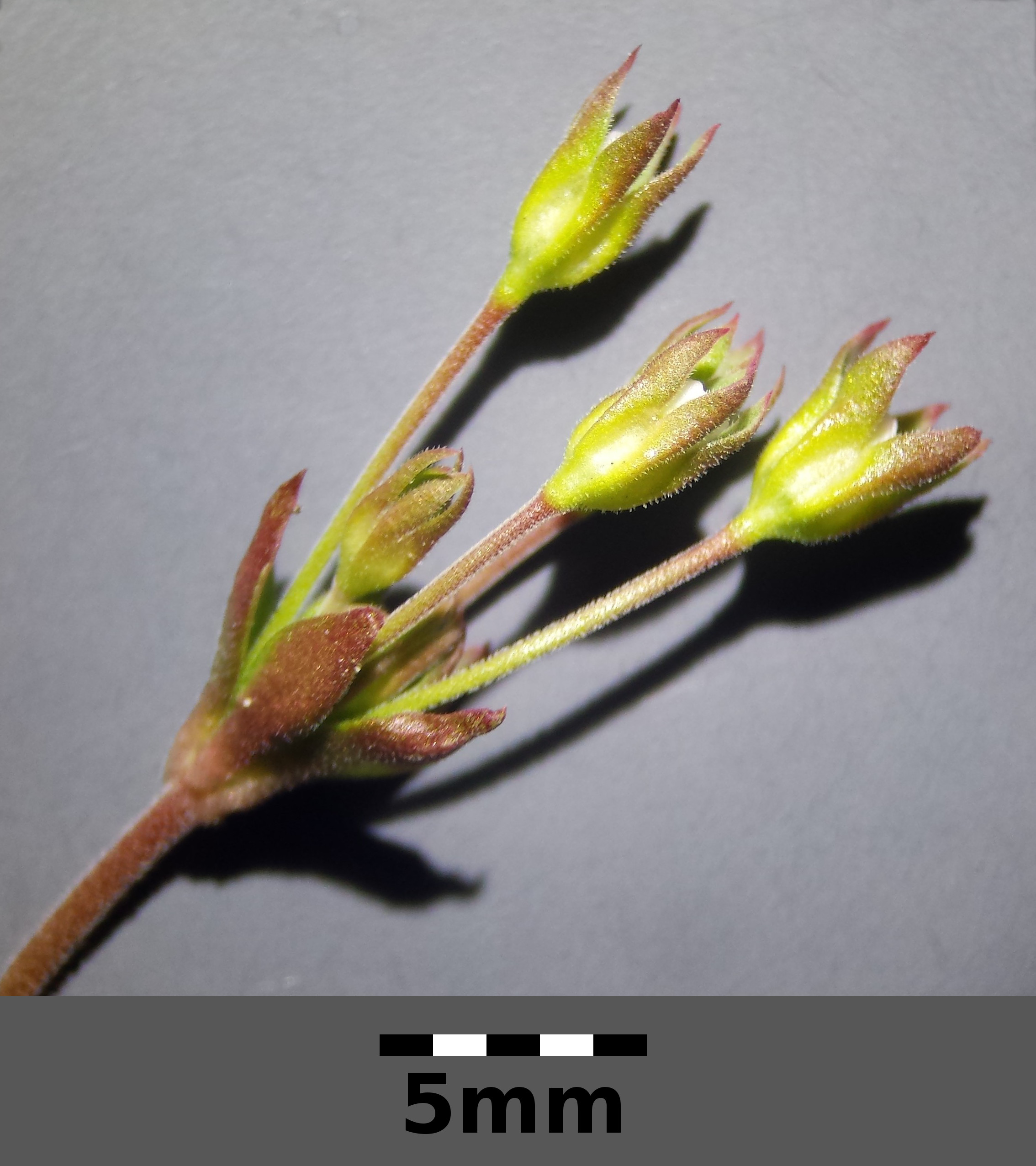 Umbel Taxonym: Androsace elongata ss Fischer et al. EfÖLS 2008 ISBN 978-3-85474-187-9 Location: Jungerberg, Jois, district Neusiedl am See, Burgenland, Austria - ca. 200 m a.s.l. Habitat: forest of Robinia pseudacacia